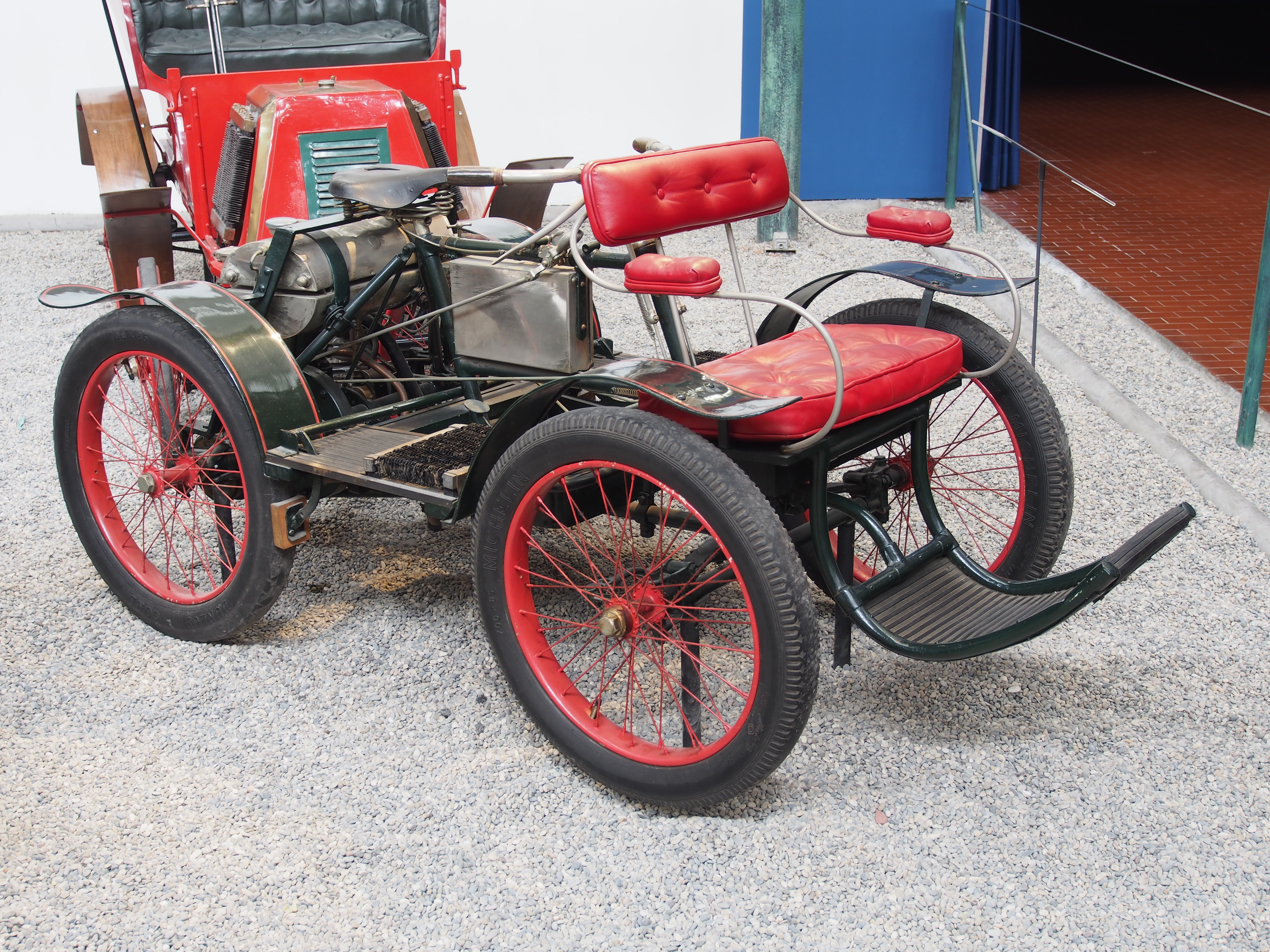 Photographed at the Cité de l'Automobile, France.